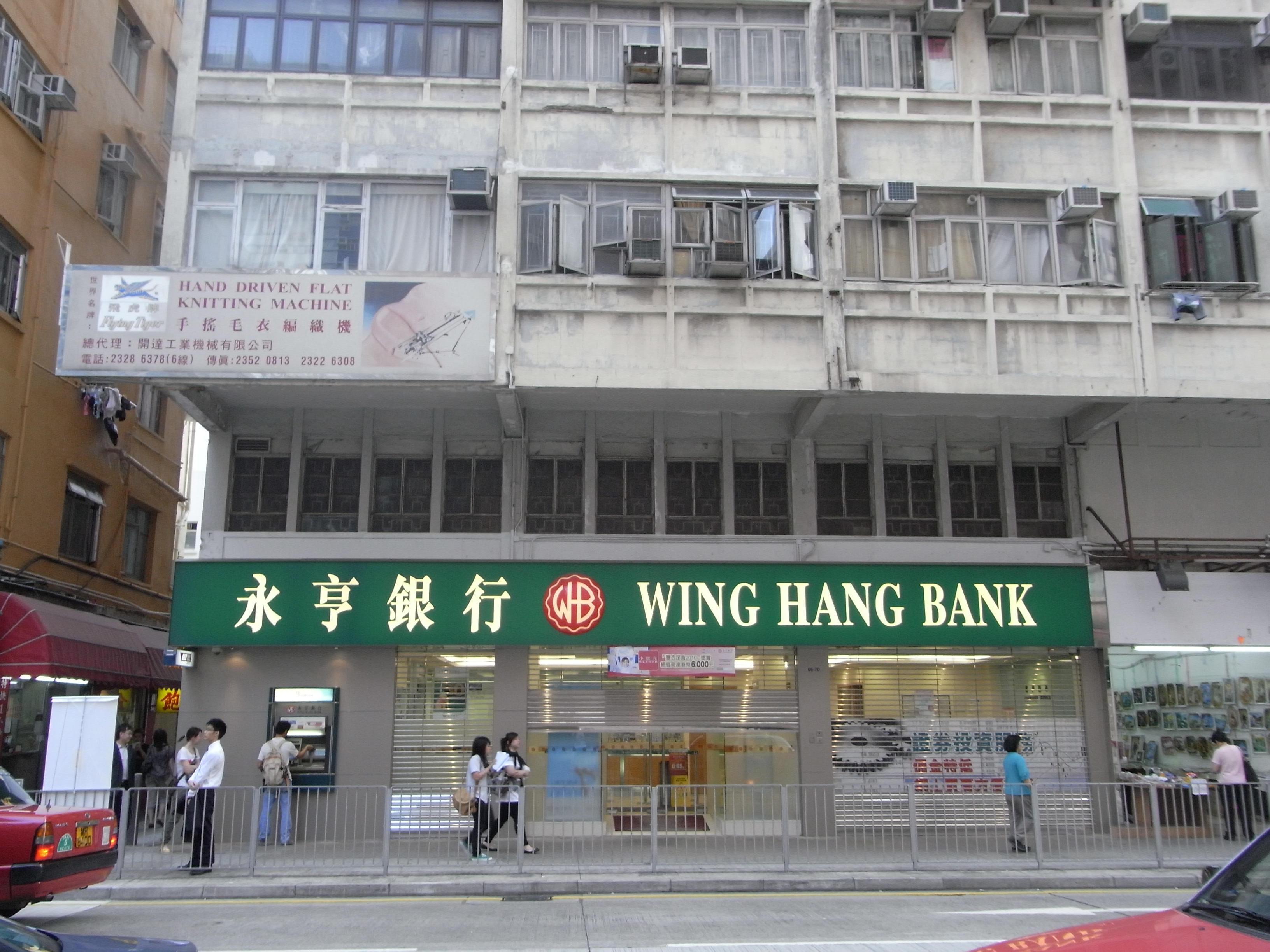 新蒲崗 爵祿街 永亨銀行